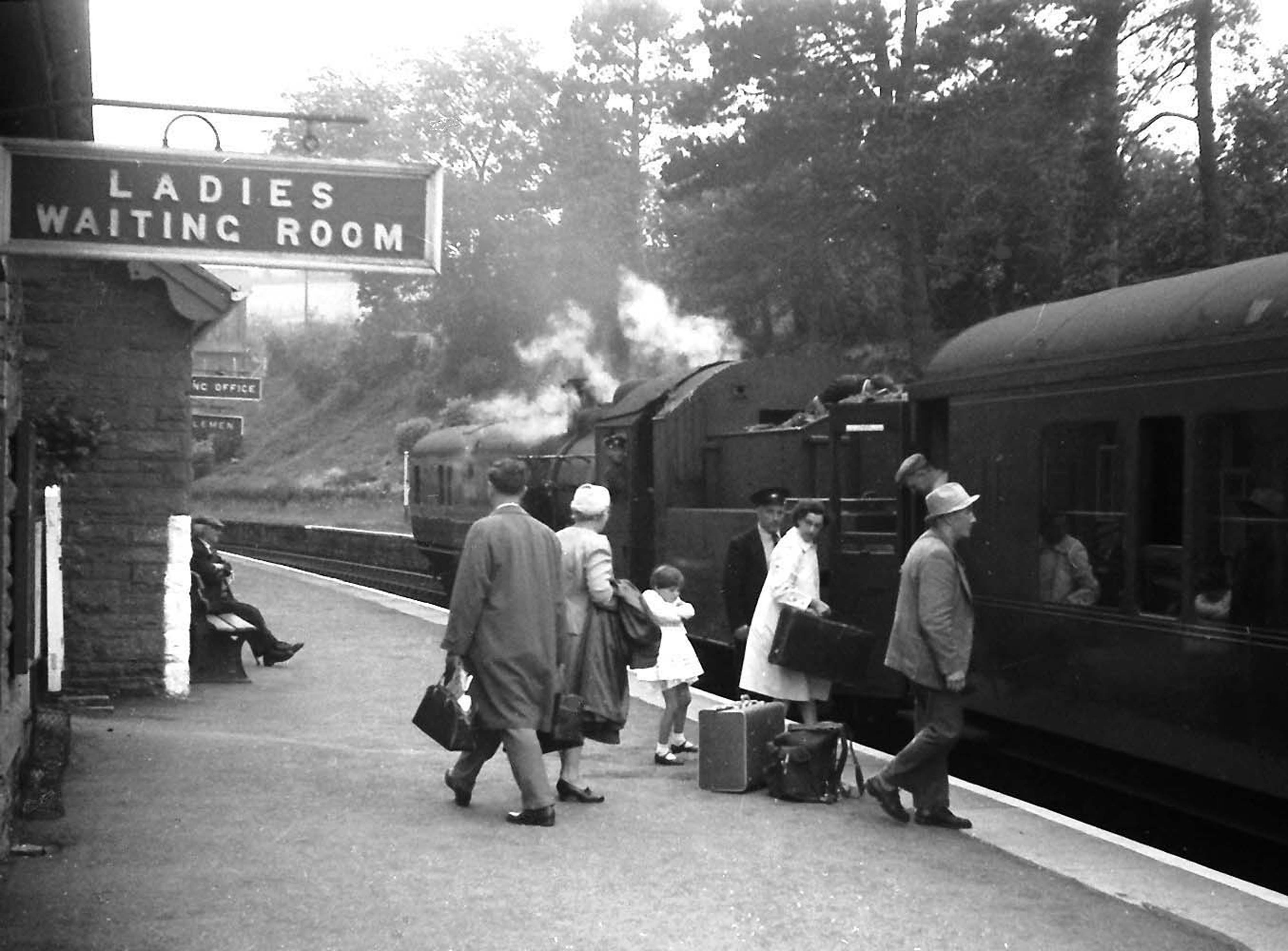 Two trains meet at Talyllyn junction shortly before the line closed in 1962